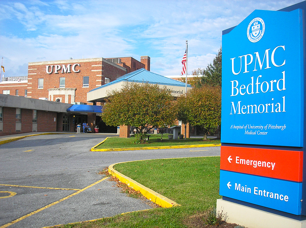 UPMC Bedford Memorial Hospital